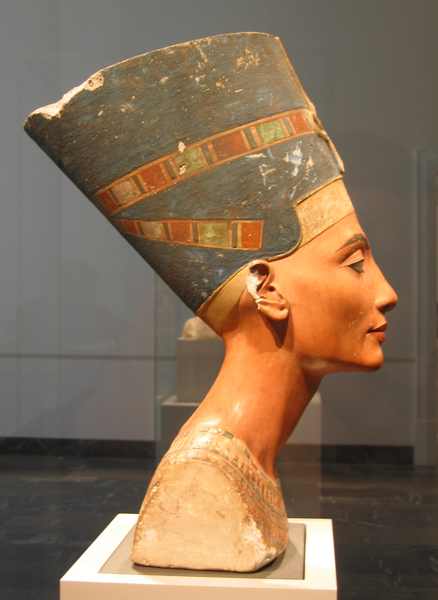 Object in the Ägyptisches Museum Berlin (Egyptian museum, building of the New Museum), Berlin.